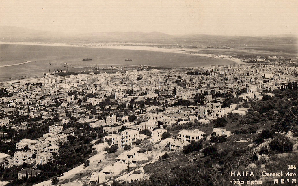 Haifa 1930, Cities in Israel